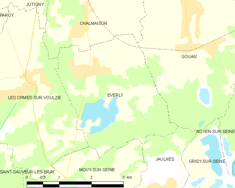 Map of French municipality Everly